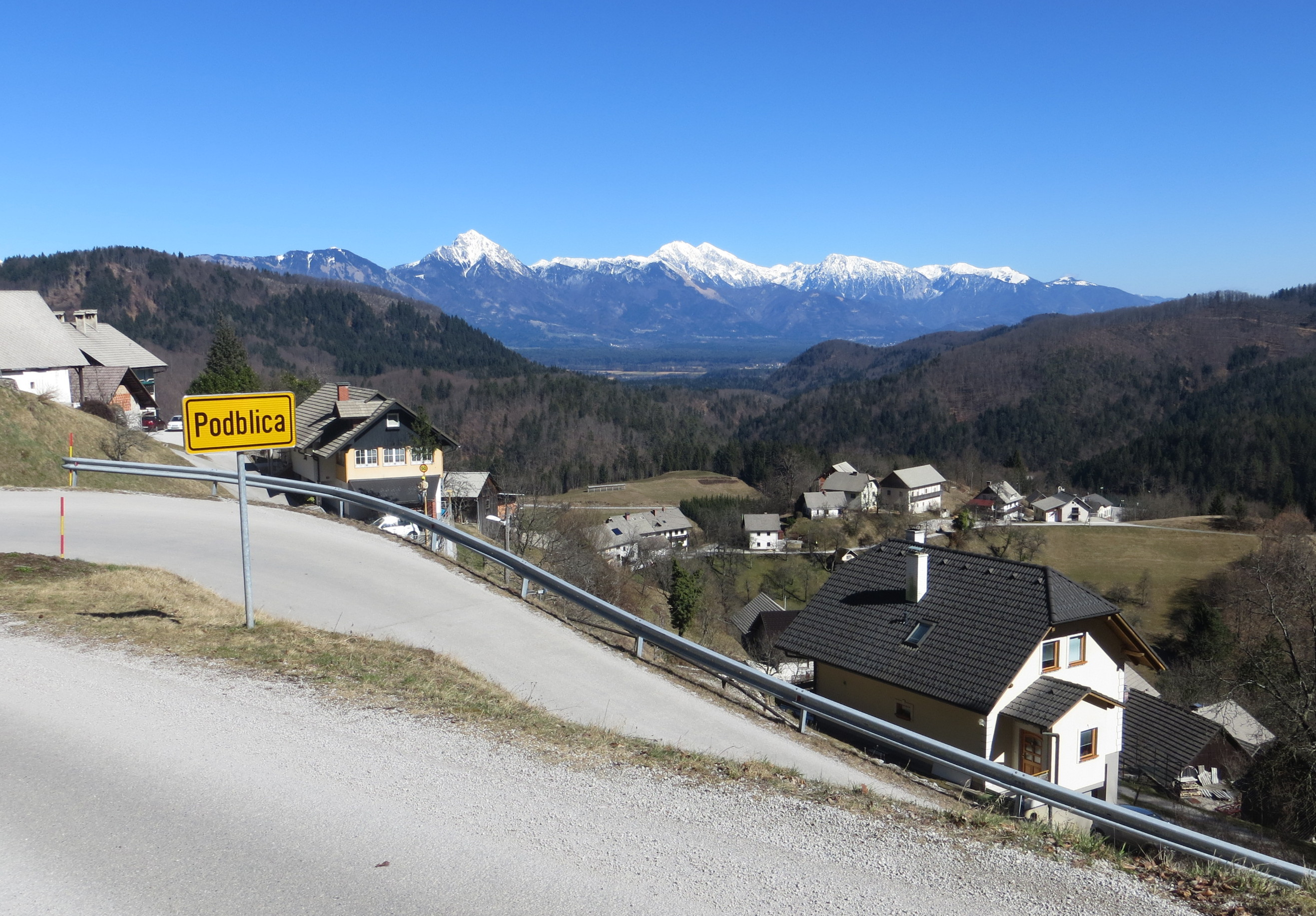 Podblica, Municipality of Kranj, Slovenia